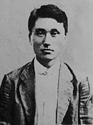 Yi Gwang-su, a Korean writer, poet, novelists, in 1918 Toykyo